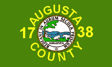 The official county flag of Augusta County, Virginia, created and adopted in 1988 for the 250th anniversary of the founding of Augusta County.